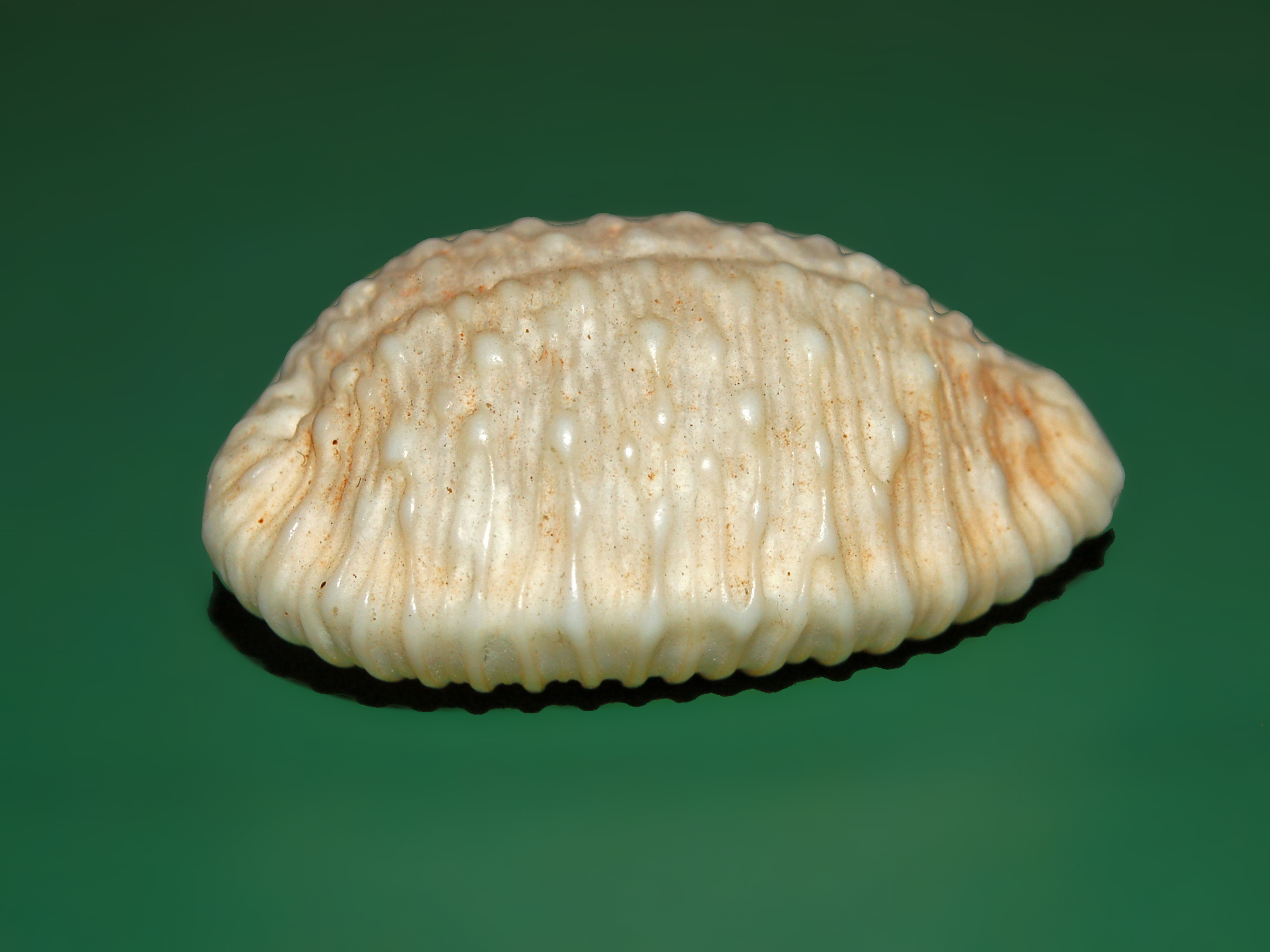 Nucleolaria granulata